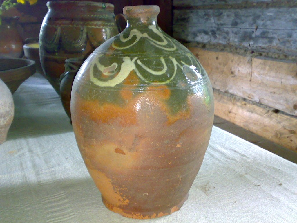 Latgale pottery.